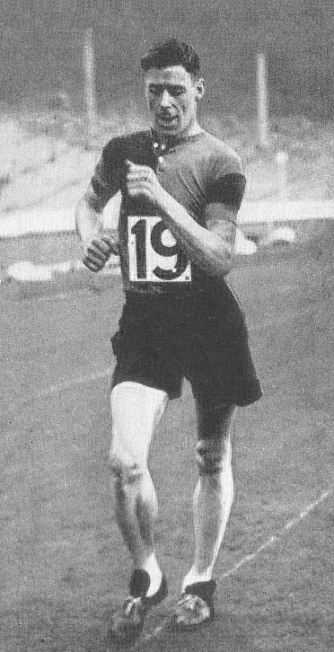 W.A. & A.C. Churchman cigarette card of Hector Harold Whitlock. Card no. 48 of a series of 50 cards titled "Kings of Speed"